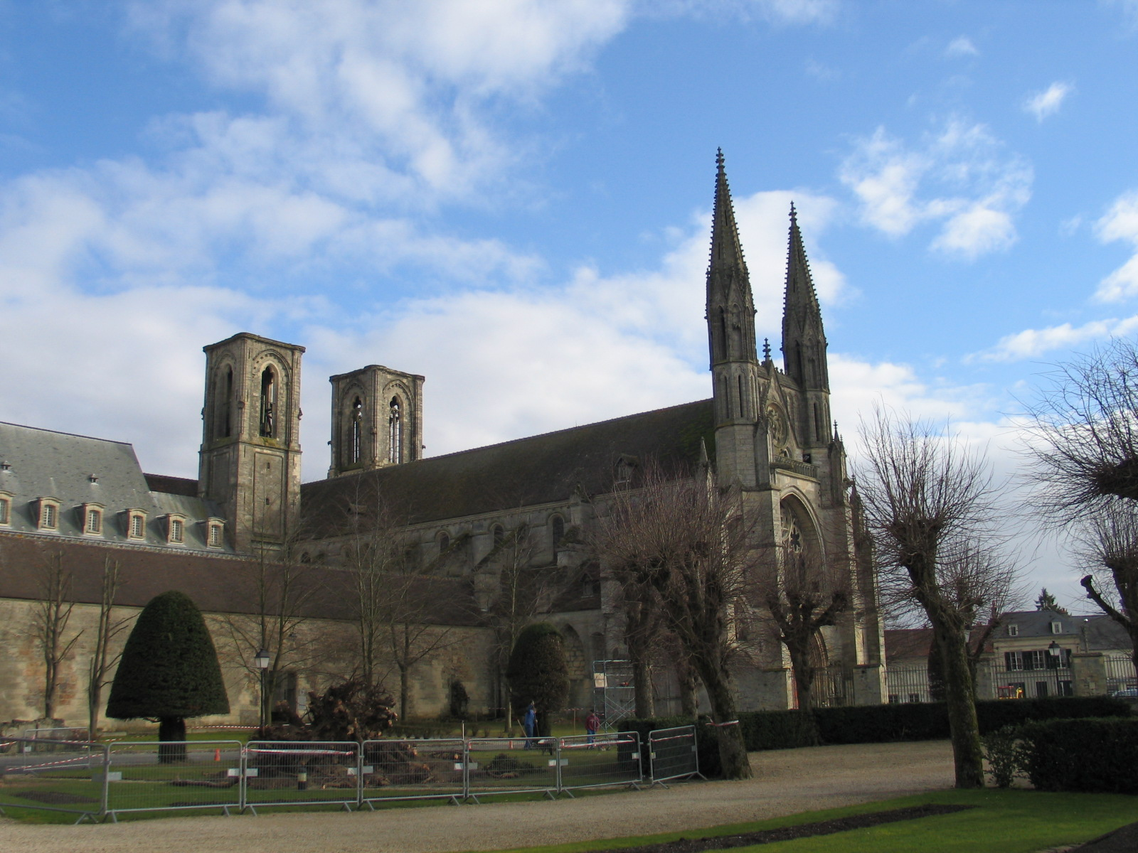 Church of Saint Martin in Laon - own work by Paul Hermans